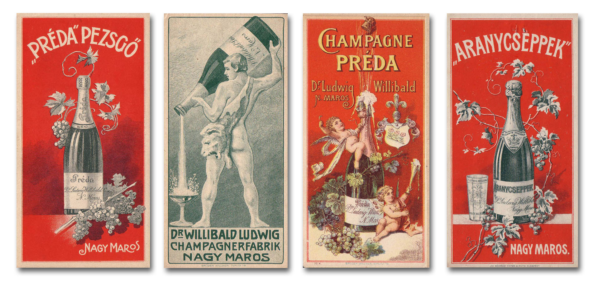 Champagne Preda, Nagymaros Hungary - 1910'years advertising